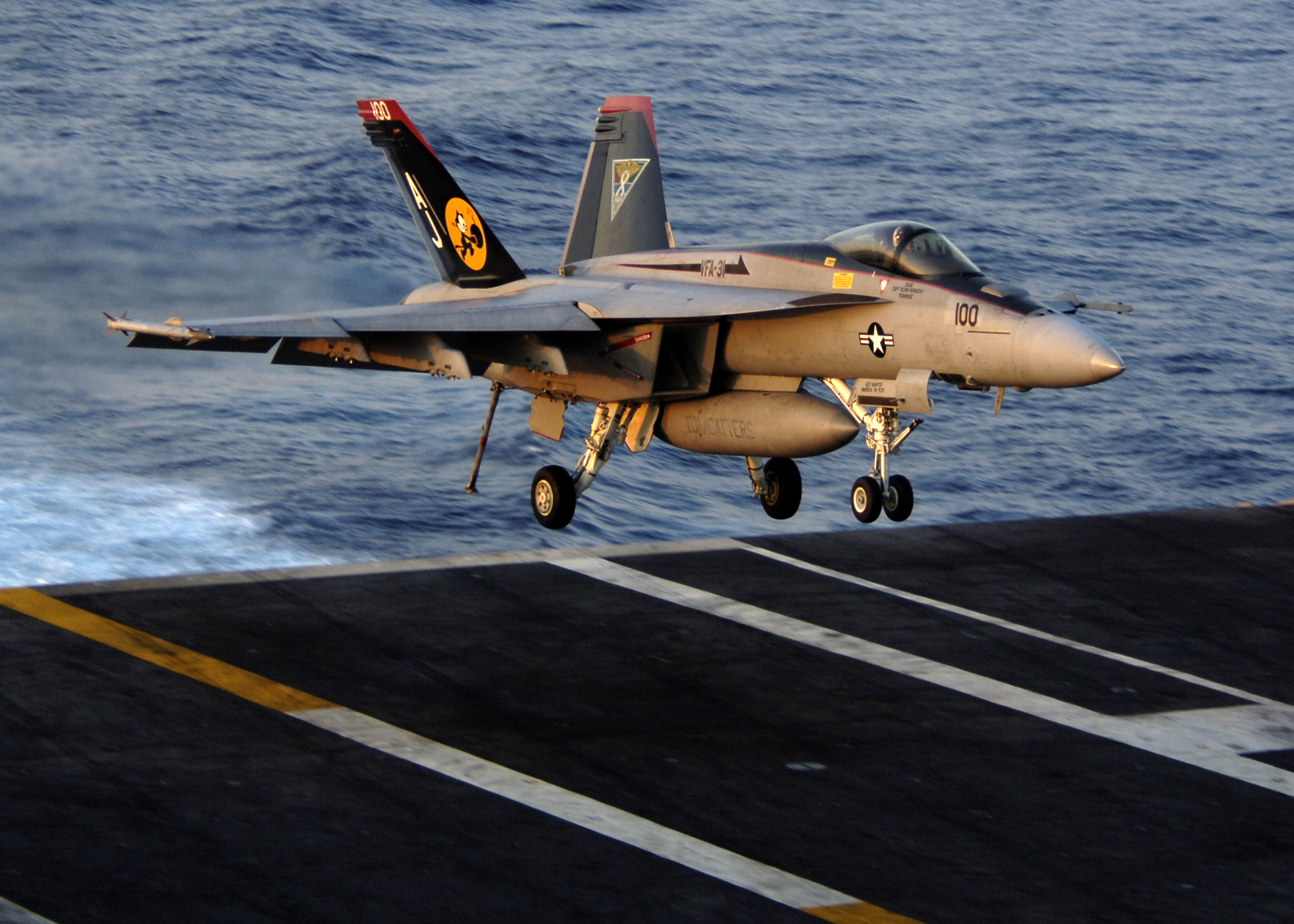 ATLANTIC OCEAN (May 4, 2008): An F/A-18E Super Hornet assigned to the "Tomcatters" of Strike Fighter Squadron (VFA) 31 lands aboard the aircraft carrier USS Theodore Roosevelt (CVN-71) during a Composite Training Unit Exercise.